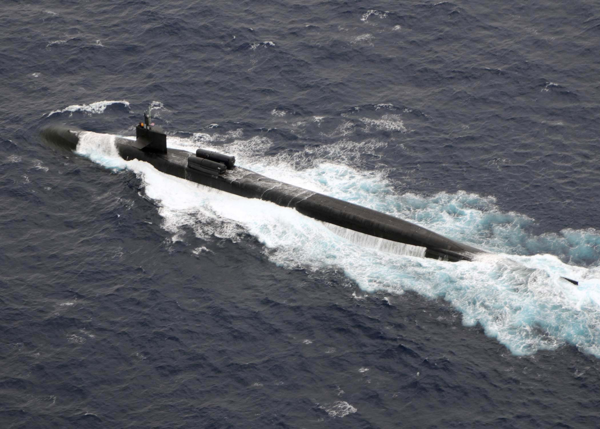 The guided-missile submarine USS Ohio (SSGN 726) steams through the water as part of a formation of ships while participating in a photo exercise with the aircraft carrier USS George Washington (CVN 73) at the culmination of ANNUALEX 2008. ANNUALEX is a bilateral exercise between the U.S. Navy and the Japanese Maritime Self-Defense Force.